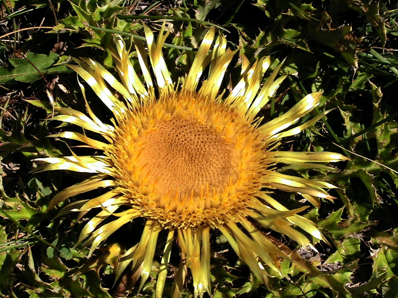 Carlina acanthifolia. In la Bòfia, Odèn (Solsonès - Catalunya). To 1.760 m. altitude